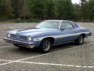 1973 Pontiac LeMans 2-Door Colonnade Hardtop